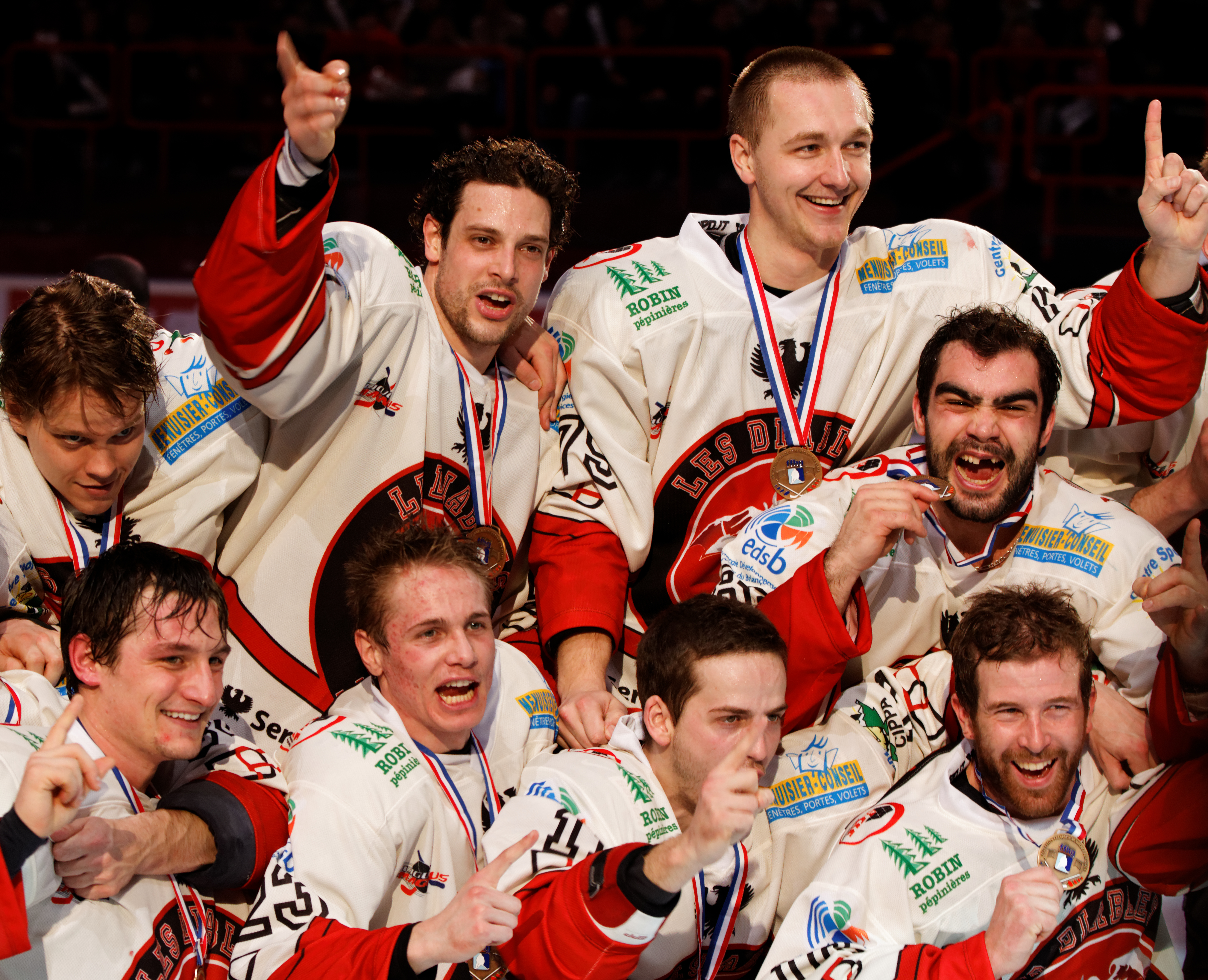 Final of the Ice Hockey French Cup 2013.